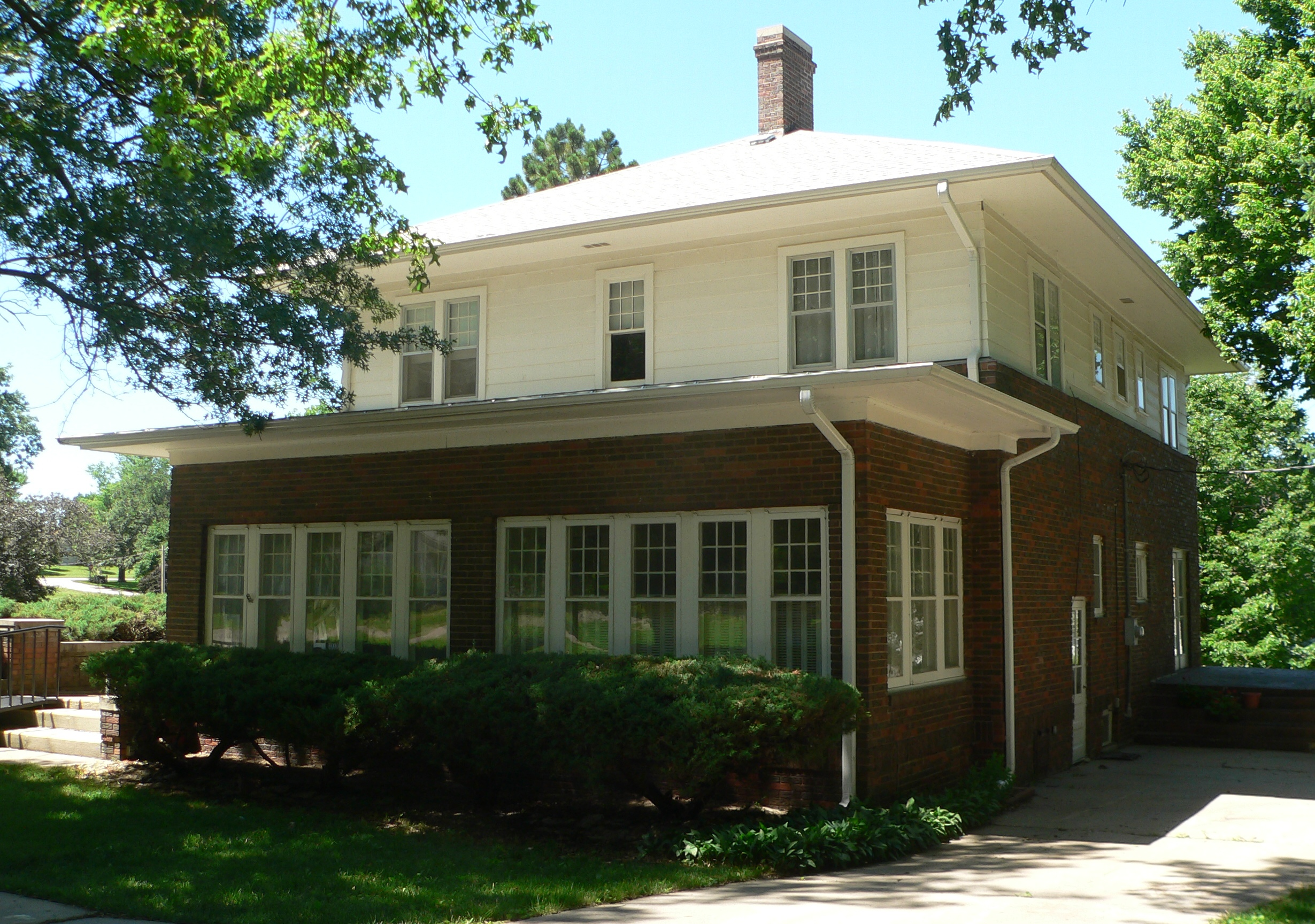 The Elms, home of author Bess Streeter Aldrich, located at 204 East F Street in Elmwood, Nebraska; seen from the southeast.